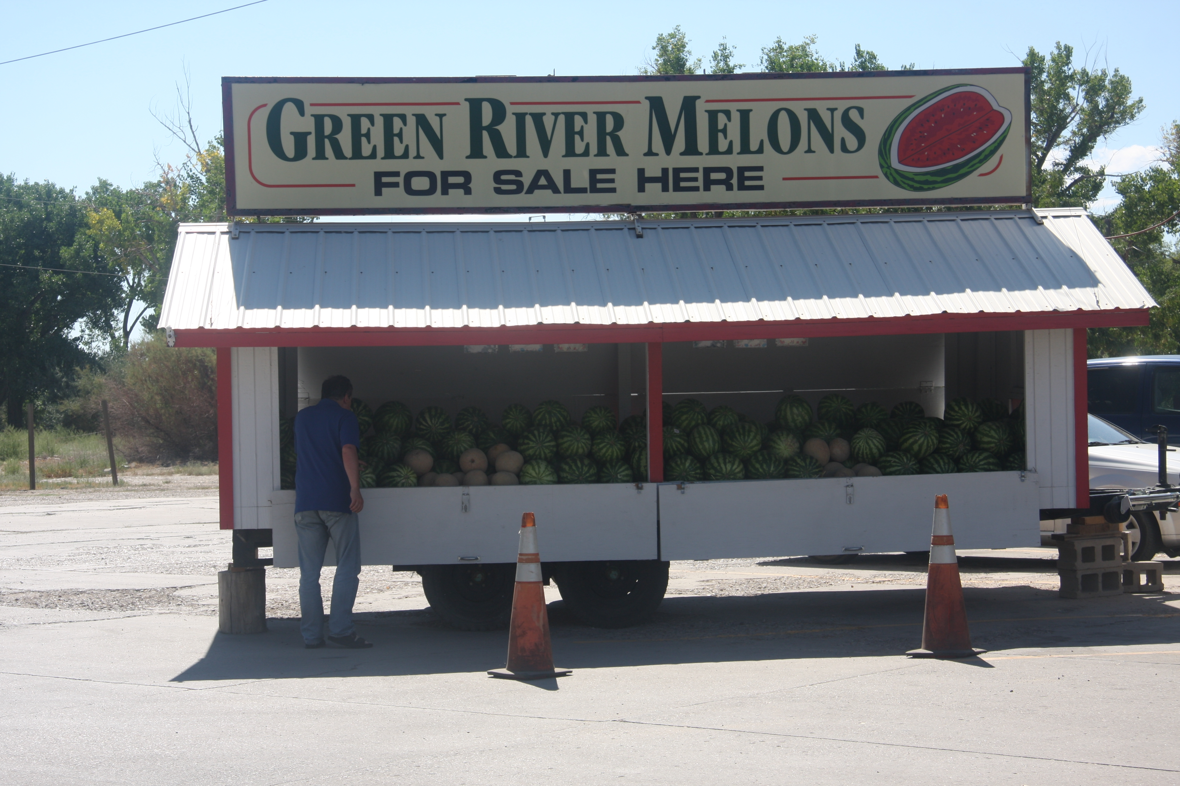 Self service outlet with melons in Green River